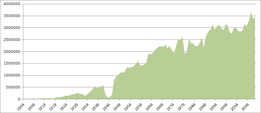 Annual visitation of Yellowstone National Park, 1904-2012. Data from